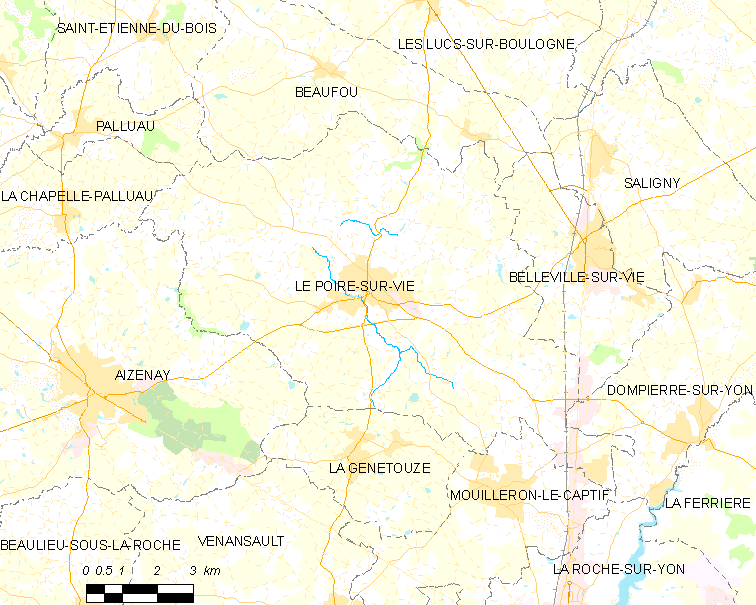 Map of French municipality Le Poiré-sur-Vie